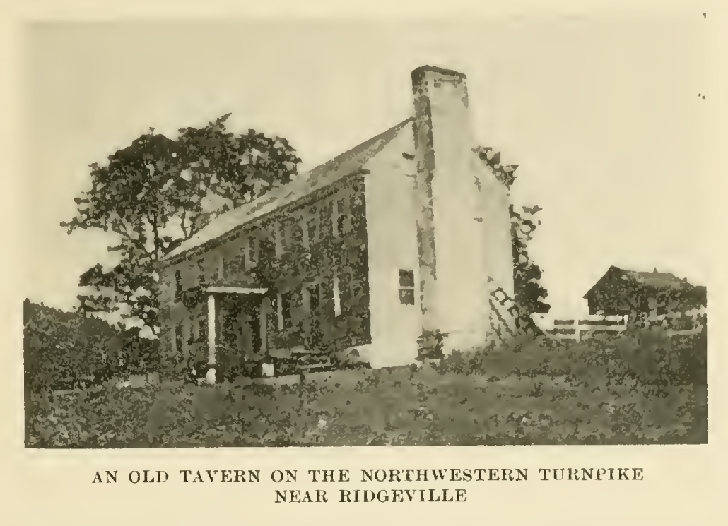 Photograph of a tavern along Northwestern Turnpike near Ridgeville, WV, that appeared in Baltimore & Ohio Railroad Company's Book of the Royal Blue, October 1908, Vol. 12 No. 01, Page 11